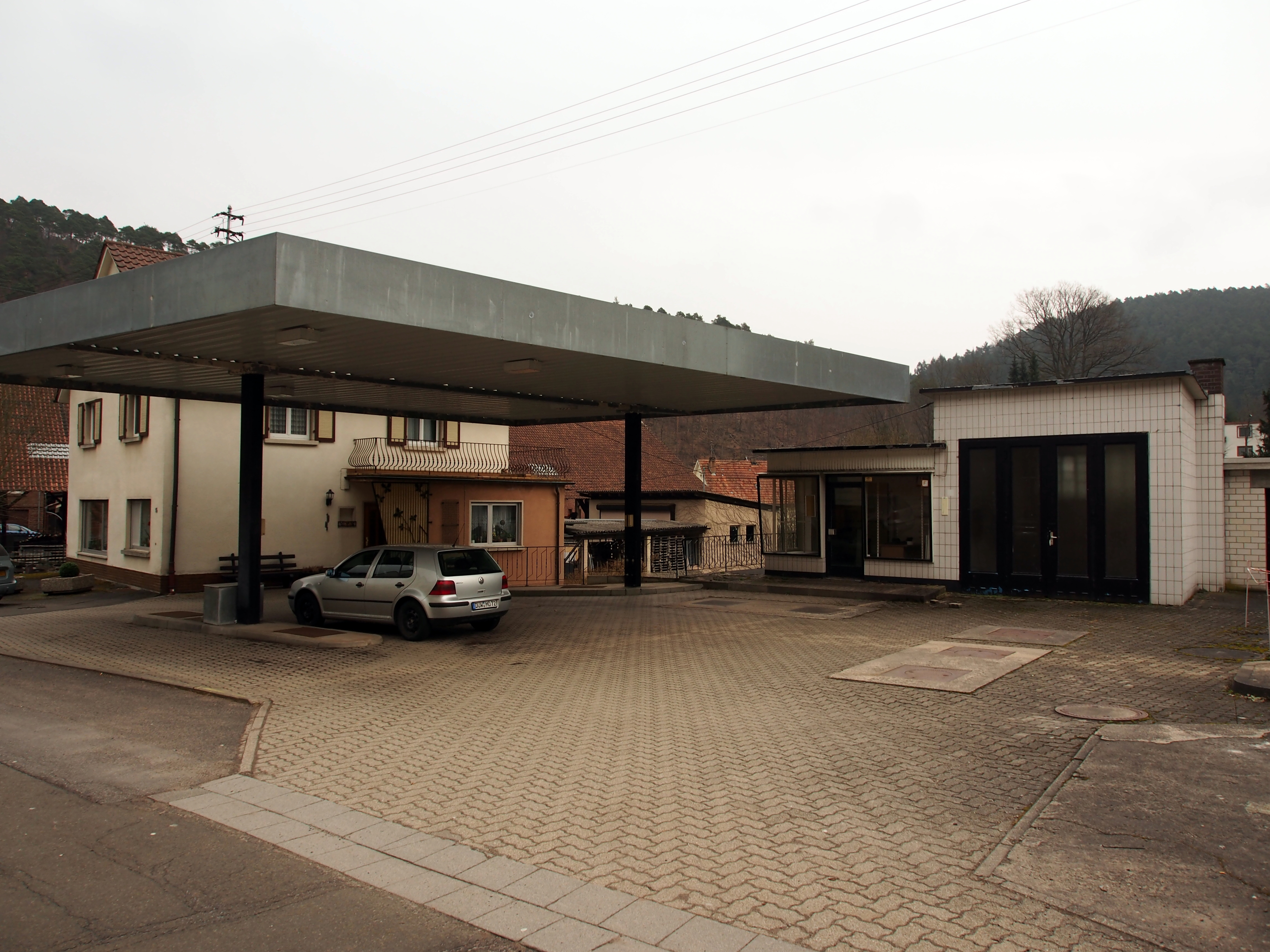 Photographed in Elmstein, Germany. Old Petrol station at Elmstein